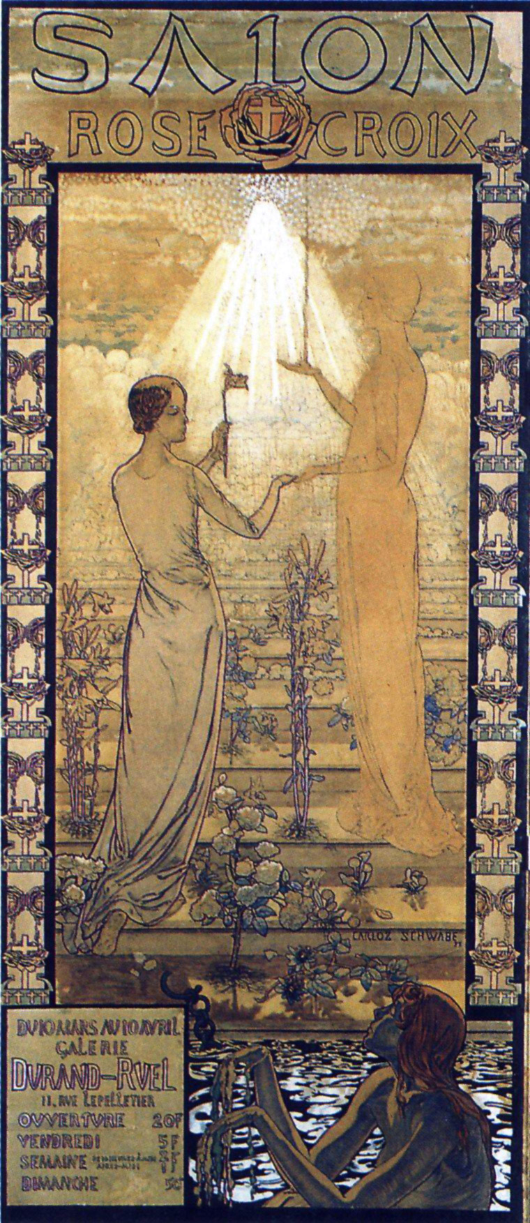 Altona (Germany)